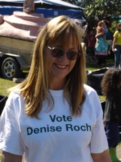 Denise Roche out campaigning.